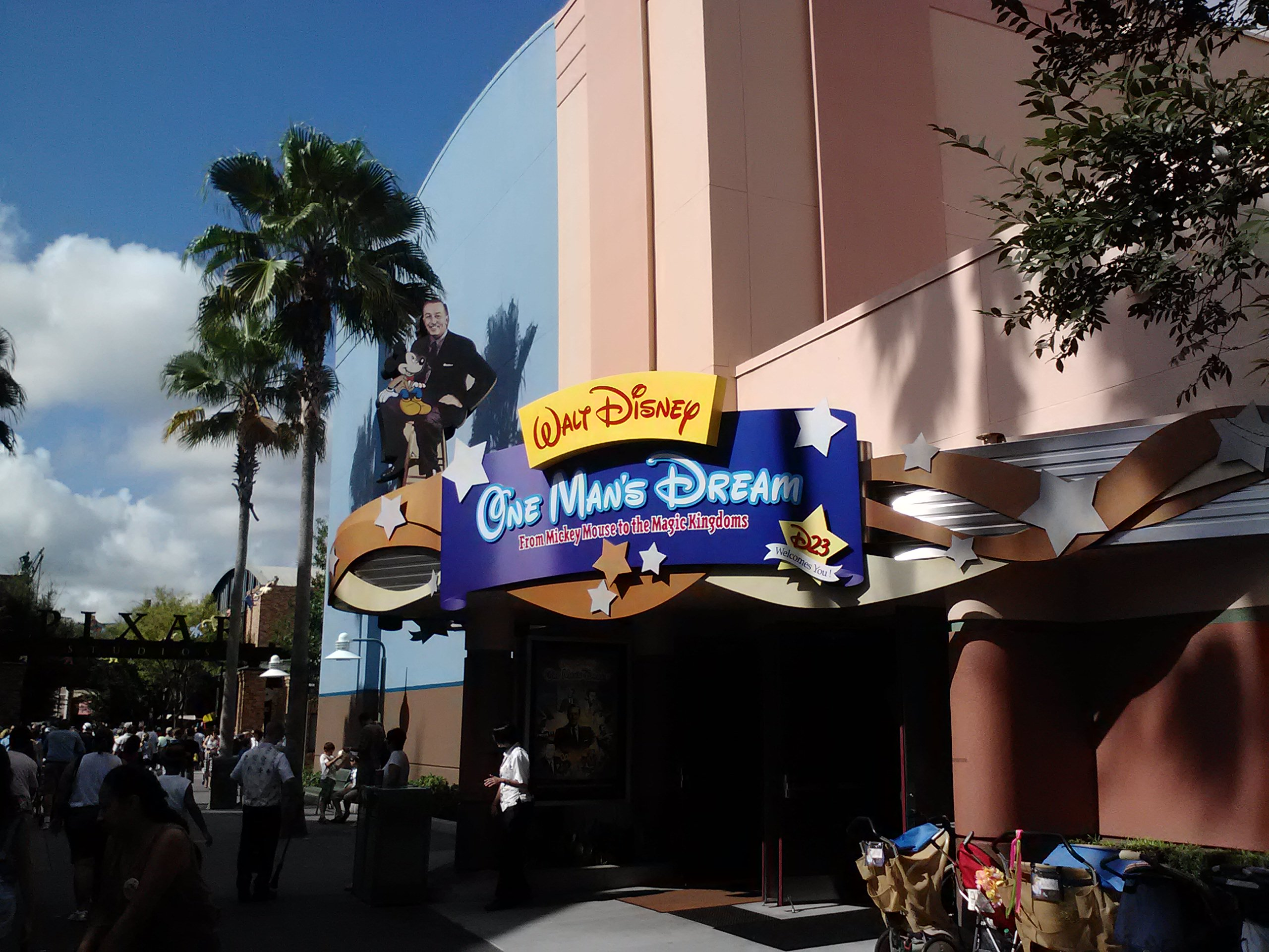 The entrance to the Walt Disney: One Man's Dream attraction at Disney's Hollywood Studios.